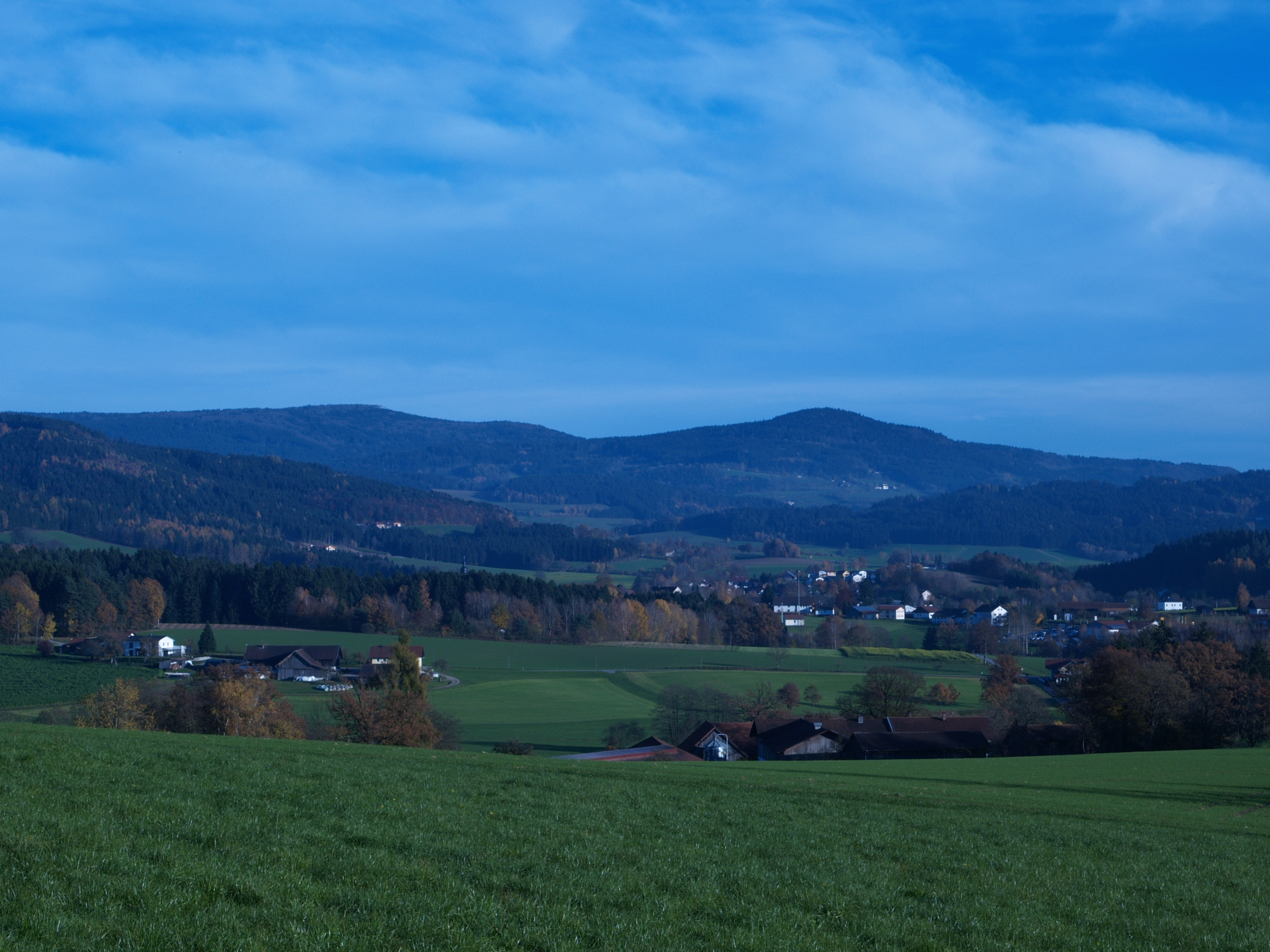 Looking to Hirschenstein and Schopf